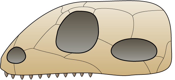 Skull of Synapsida